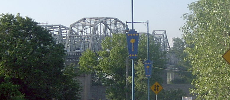 Fairfax and Platte Purchase Bridges over the Missouri River, connecting Platte County, Missouri to Kansas City, Kansas. View from the north. Photo by Brent Hugh, released into the public domain by the photographer.